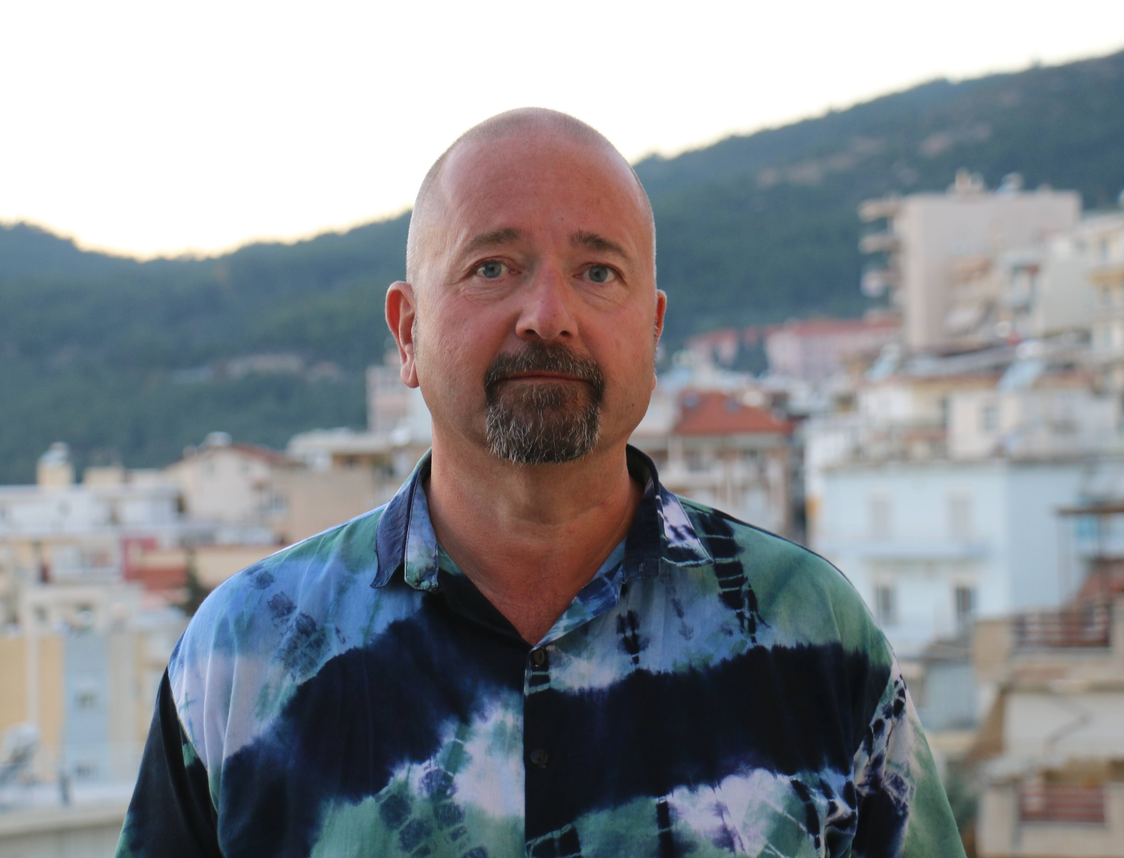 Portrait of Per Bäckström at a research sejour in Greece.